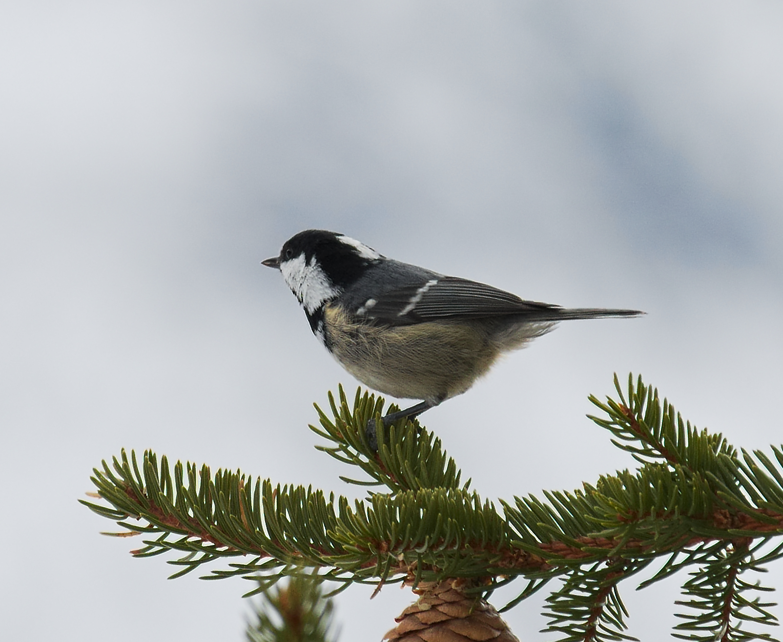 Paradiski, Coal tit - Periparus ater. Taken in La Plagne, Champagny-en-Vanoise, Savoie, France.